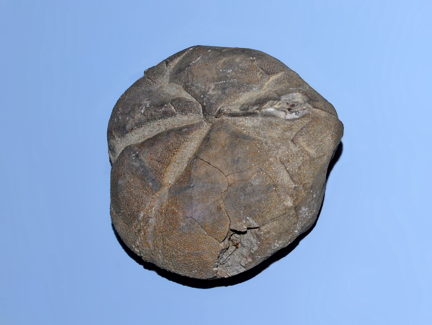 Fossil of Spatangus species, on display at the Museo Paleontologico Giulio Maini, Ovada